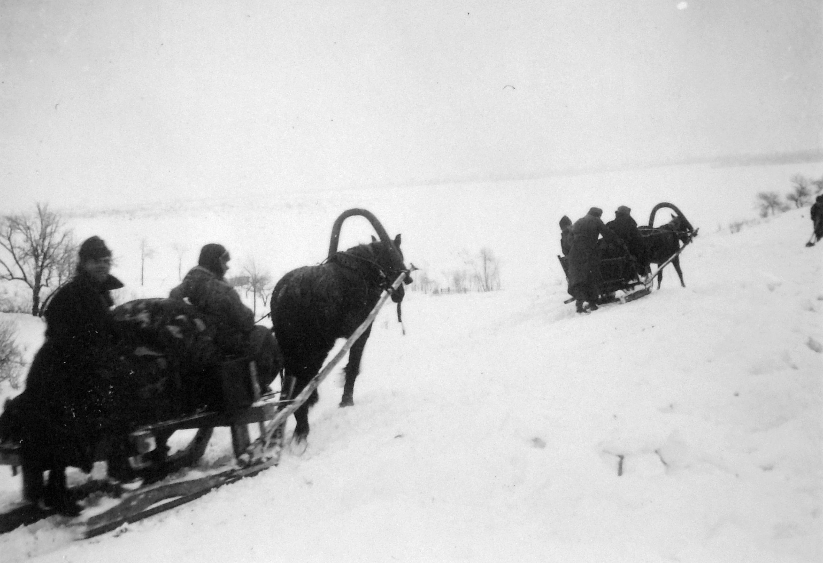 Location: Russia Tags: second World War, eastern front, Soviet Union, horse